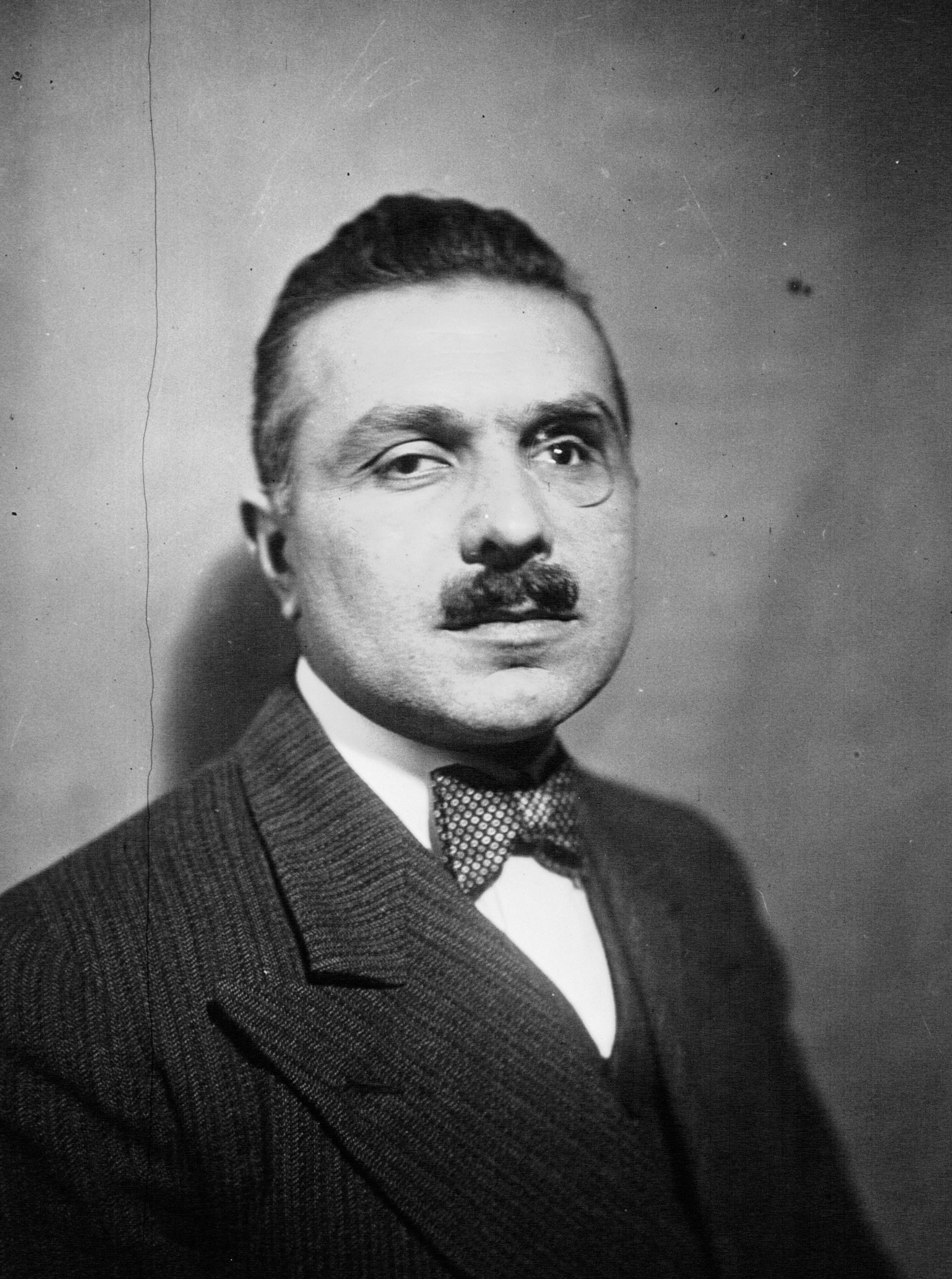 Portrait of the Occitan politician Joan Nièl